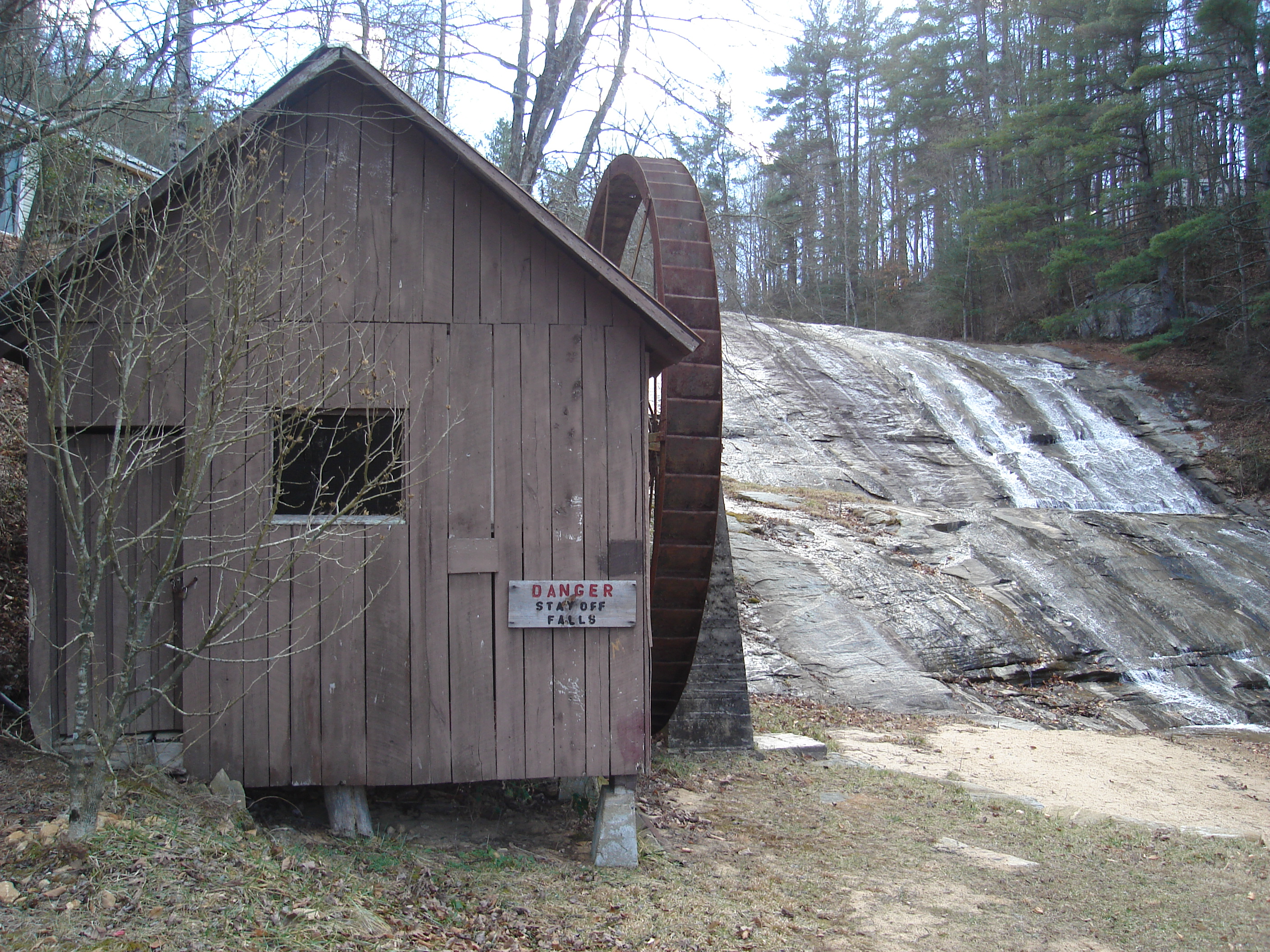 The wheelhouse at the bottom of the Moravian Falls waterfall.